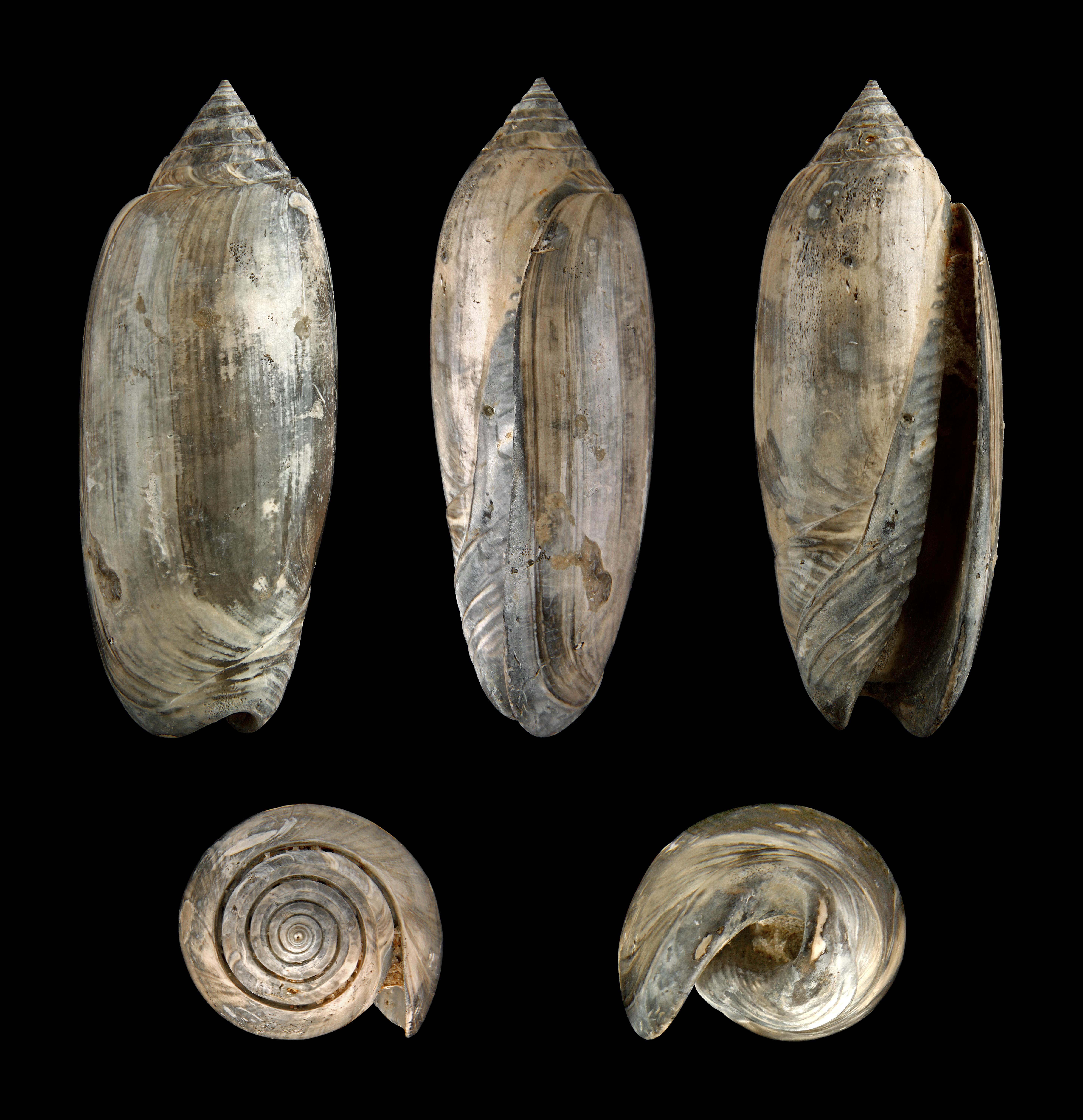 Lettered Olive; Length 5.5 cm; Tertiary, Pliocene, Florida, USA; Shell of own collection, therefore not geocoded.